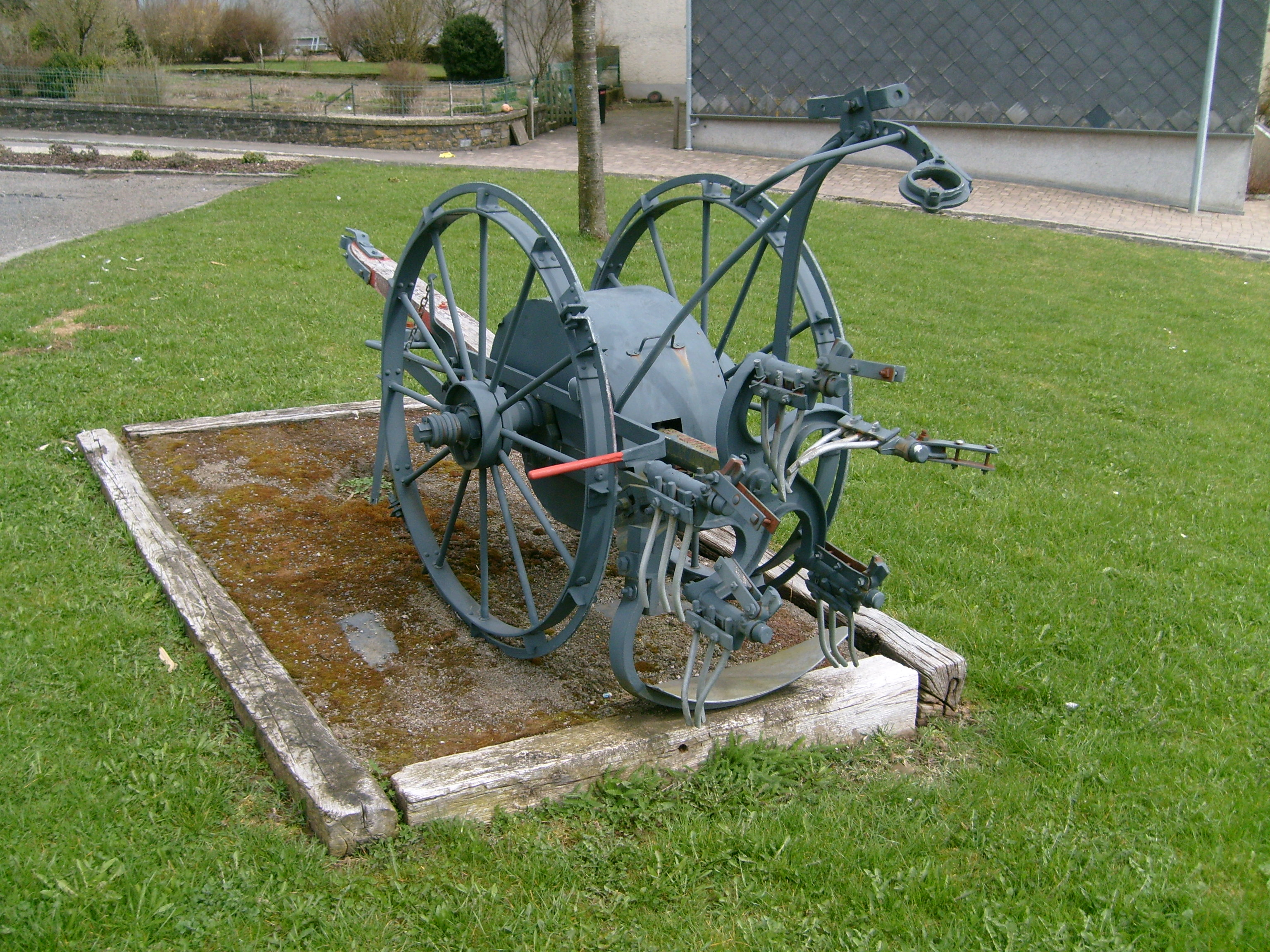 Potato harvester exhibited in Nacher, Oesling, Luxembourg.